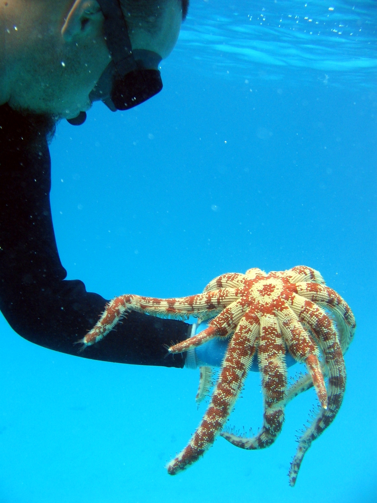 Top of Magnificent Star starfish (Luidia magnifica) - note regenerating legs Image ID: reef0674, NOAA's Coral Kingdom Collection Location: Northwest Hawaiian Islands